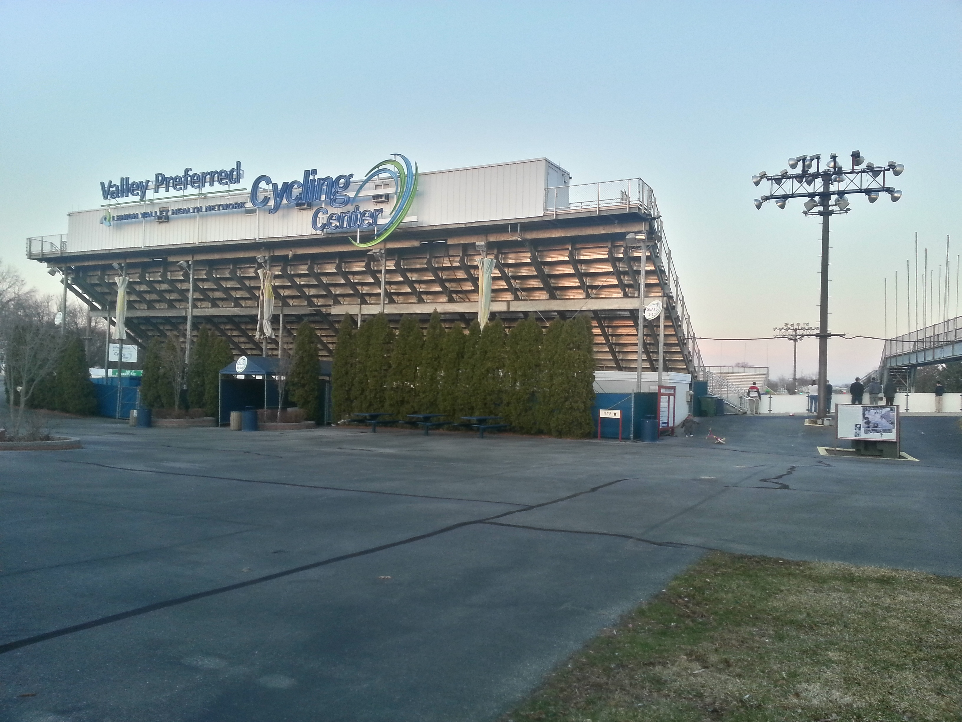 The seating at the entrance side of the Valley Preferred Cycling Center.